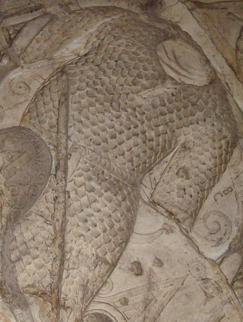 From the cast of Trajan's column in the Victoria and Albert museum, London.